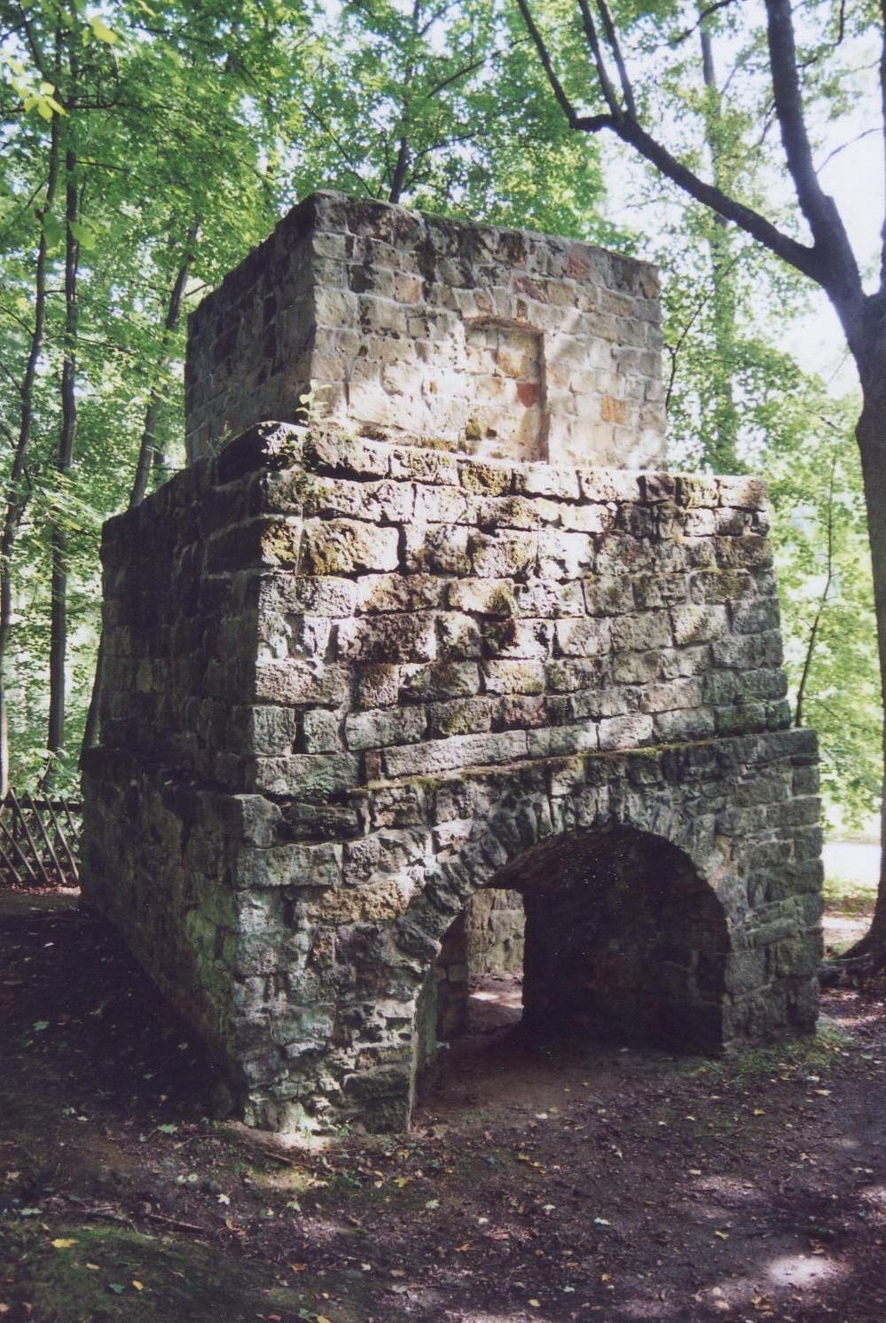 This image shows an old furnace (built about 1700) in Rosenthal-Bielatal in Saxony, Germany.